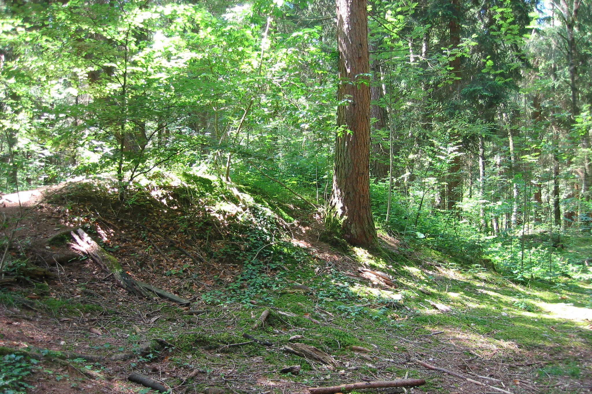 Tumulus from the Latène period in Stockdorf